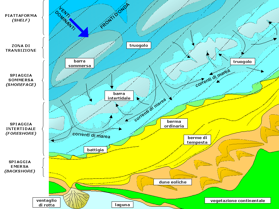 Sketch-map of a beach context (high-tide moment).